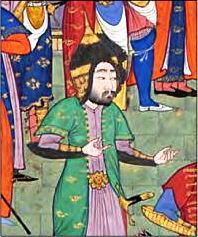 Painting of Gudarz in The Shahnama of Shah Tahmasp